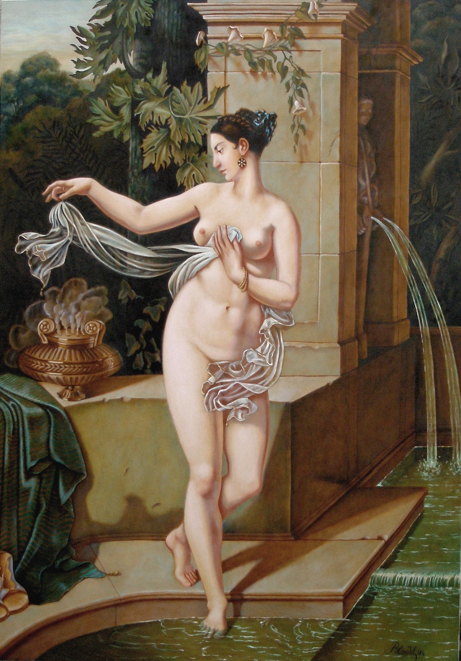 Faithful replica (date ?) by John Parker, after an original 1814 oil painting by Merry-Joseph Blondel, which was lost with the sinking of the RMS Titanic in 1912.